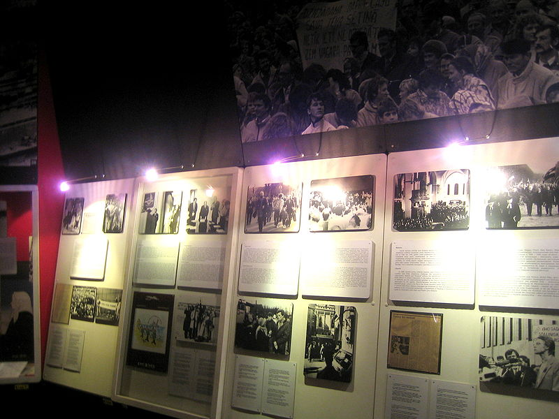 exposition of the Museum of the Occupation of Latvia